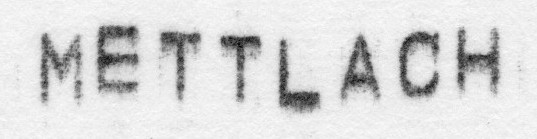 Typical typeface of a drum printer with staggered characters (print made in 1965/66)